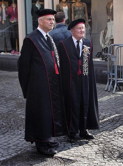 Burggraaf Edmond Poullet and Pieter Huys, members of the Edele Confrérie van het Heilig Bloed